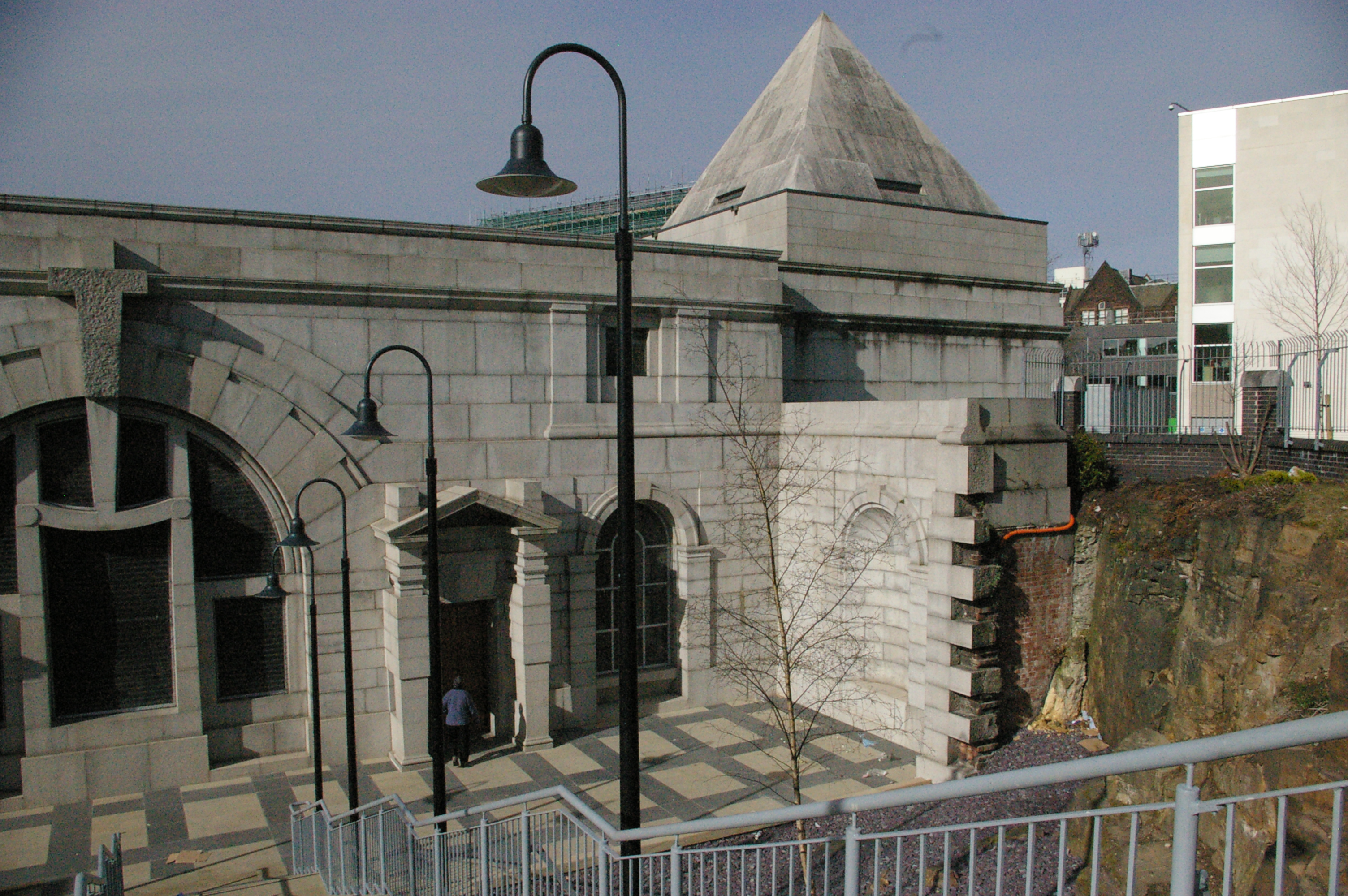 Exterior of the Crypt at Liverpool Metropolitan Cathedral, Liverpool, England. This was the only part of the ambitious Lutyens' Cathedral to be built before spiraling costs lead to the project being abandoned. Had this particular design been built, it would have been the second largest church building on earth as well as costing close to £1 billion as of 2011.